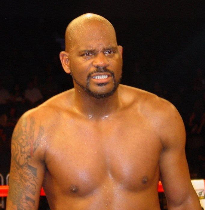 Tony Thompson at the Blame It On Reno ESPN Fights in Reno, NV